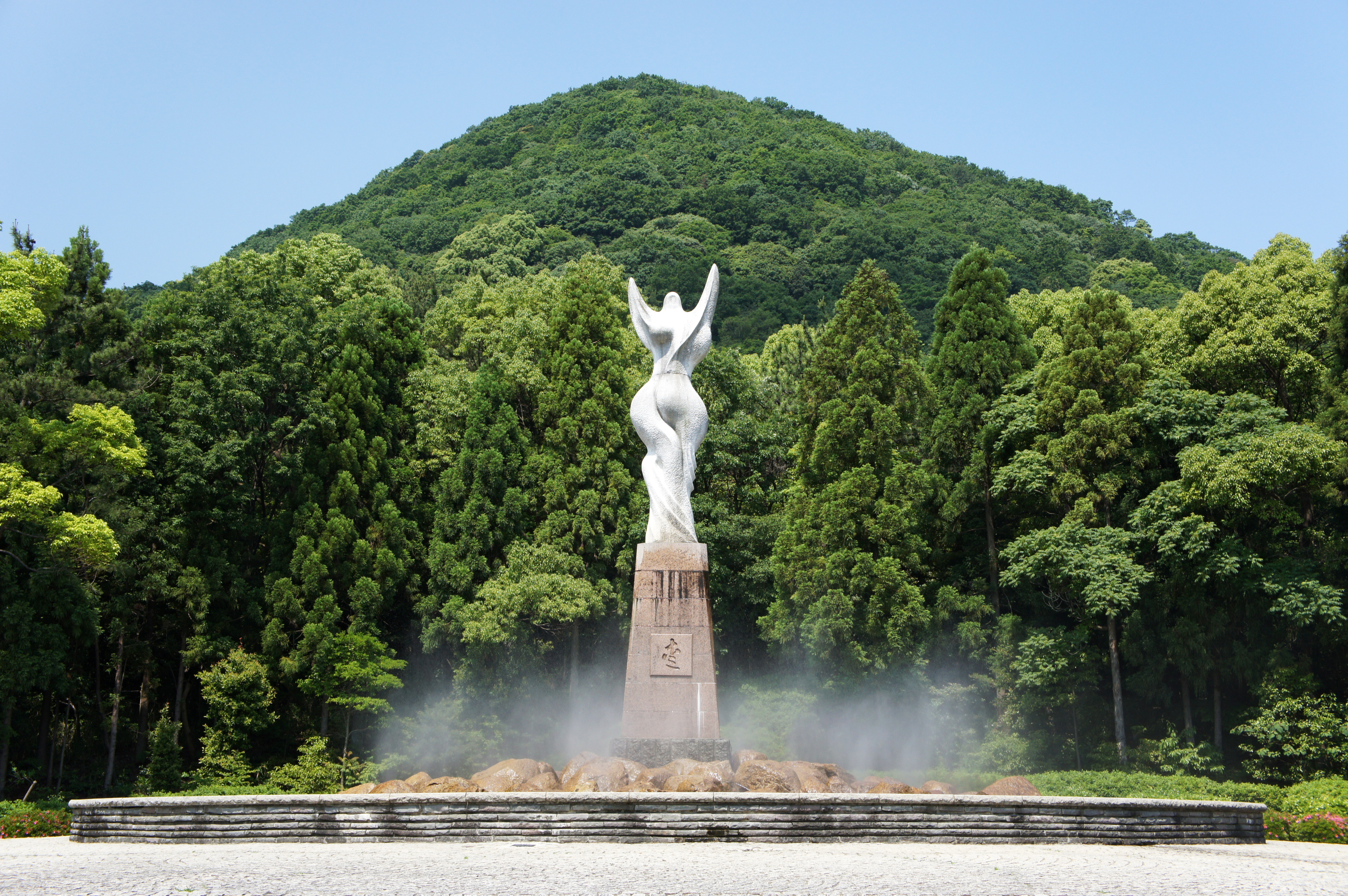 Hyogo prefectural Kabutoyama Forest Park in Nishinomiya, Hyogo prefecture, Japan